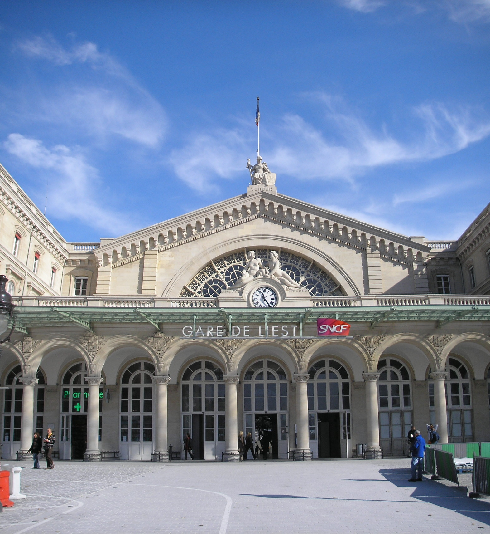 The Gare de l'Est in Paris